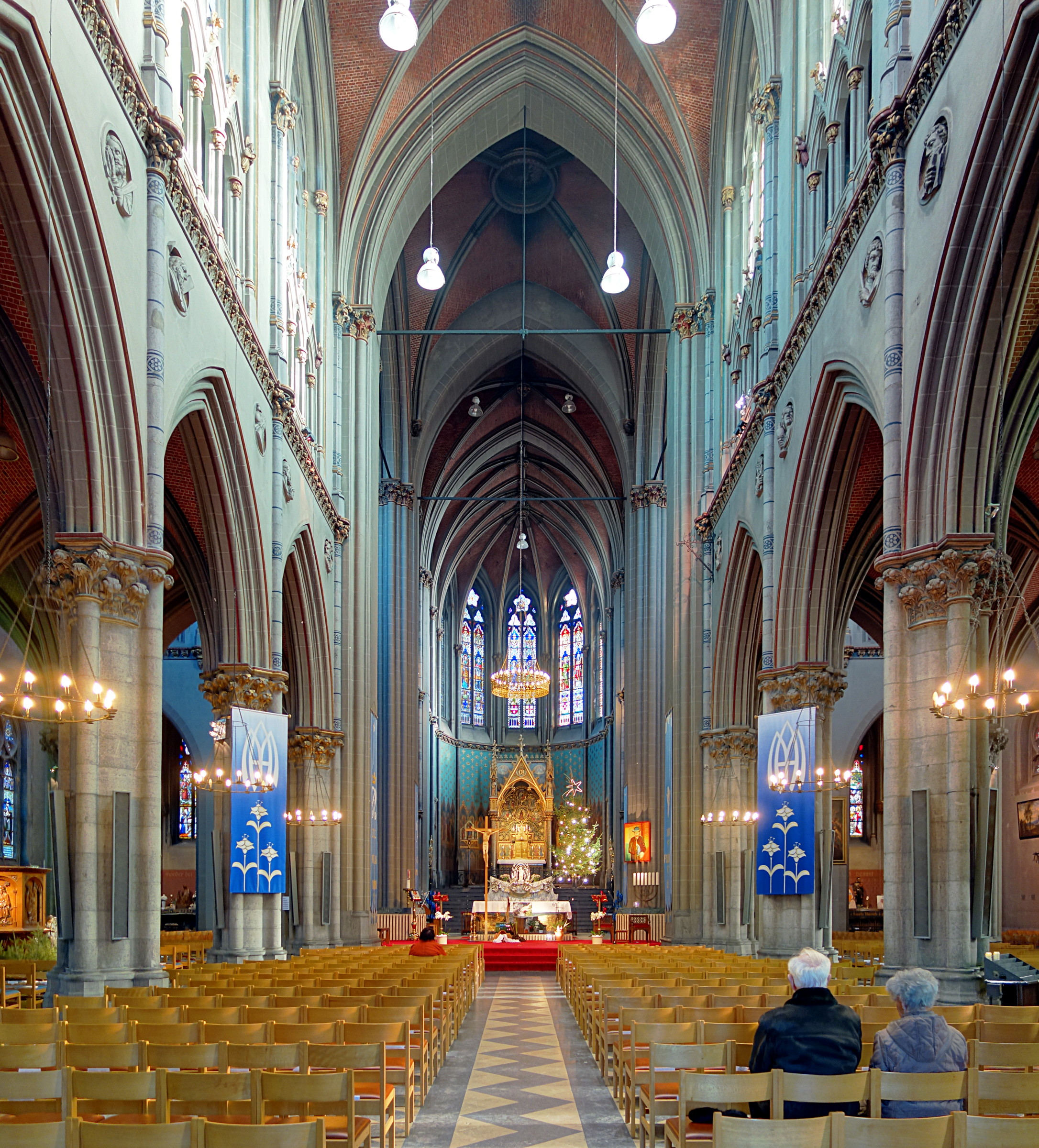 Nave of Notre-Dame Basilica in Dadizele, Belgium.